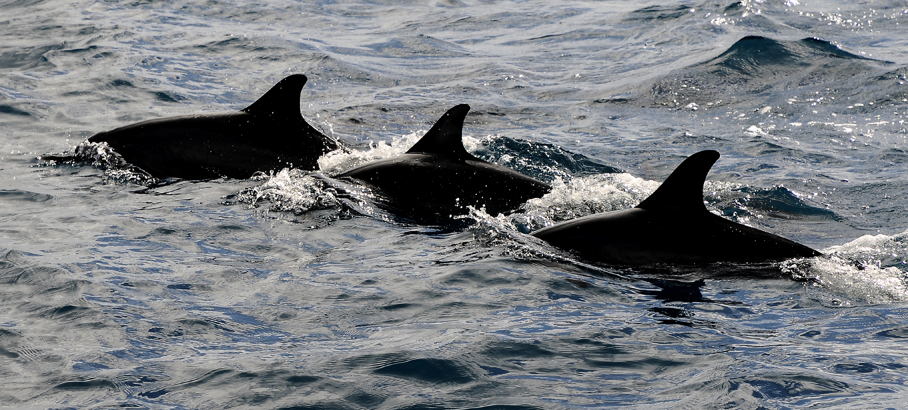 three dolphins at pacific ocean